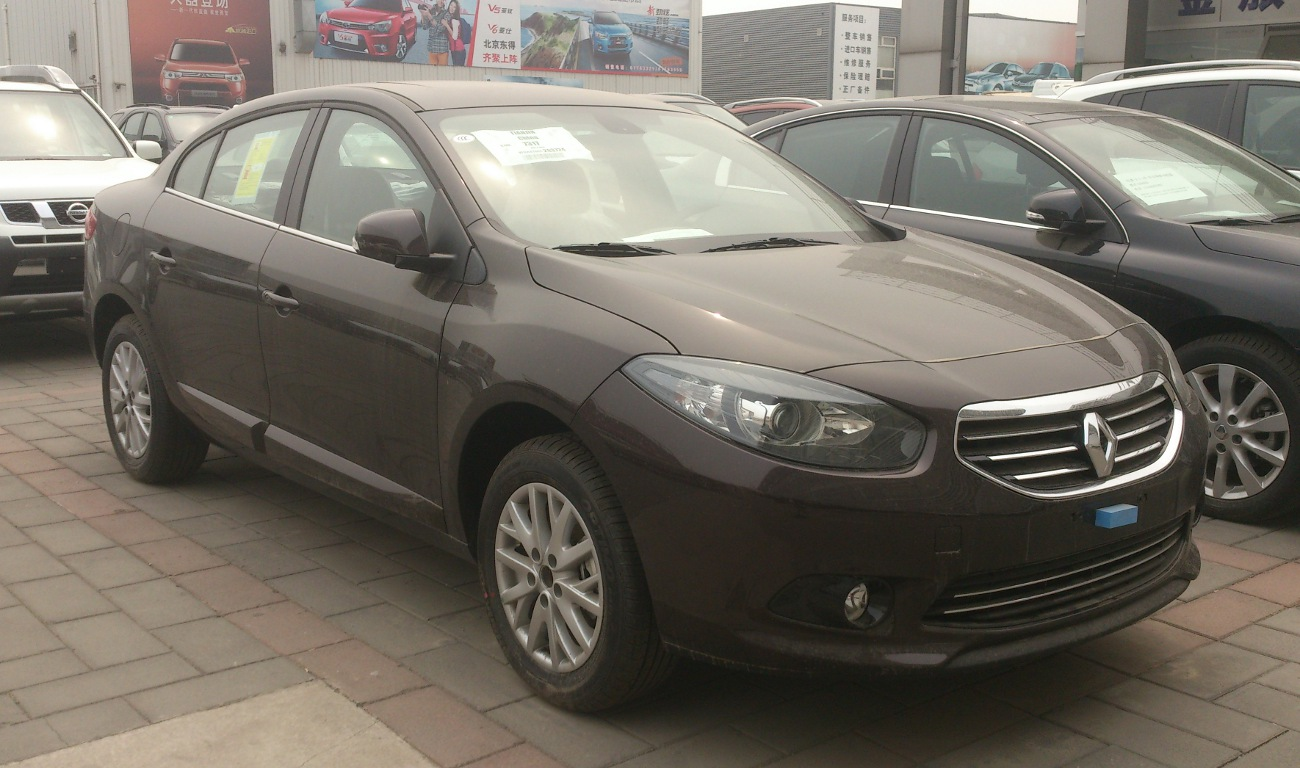 Renault Fluence facelift photographed in Beijing, China.